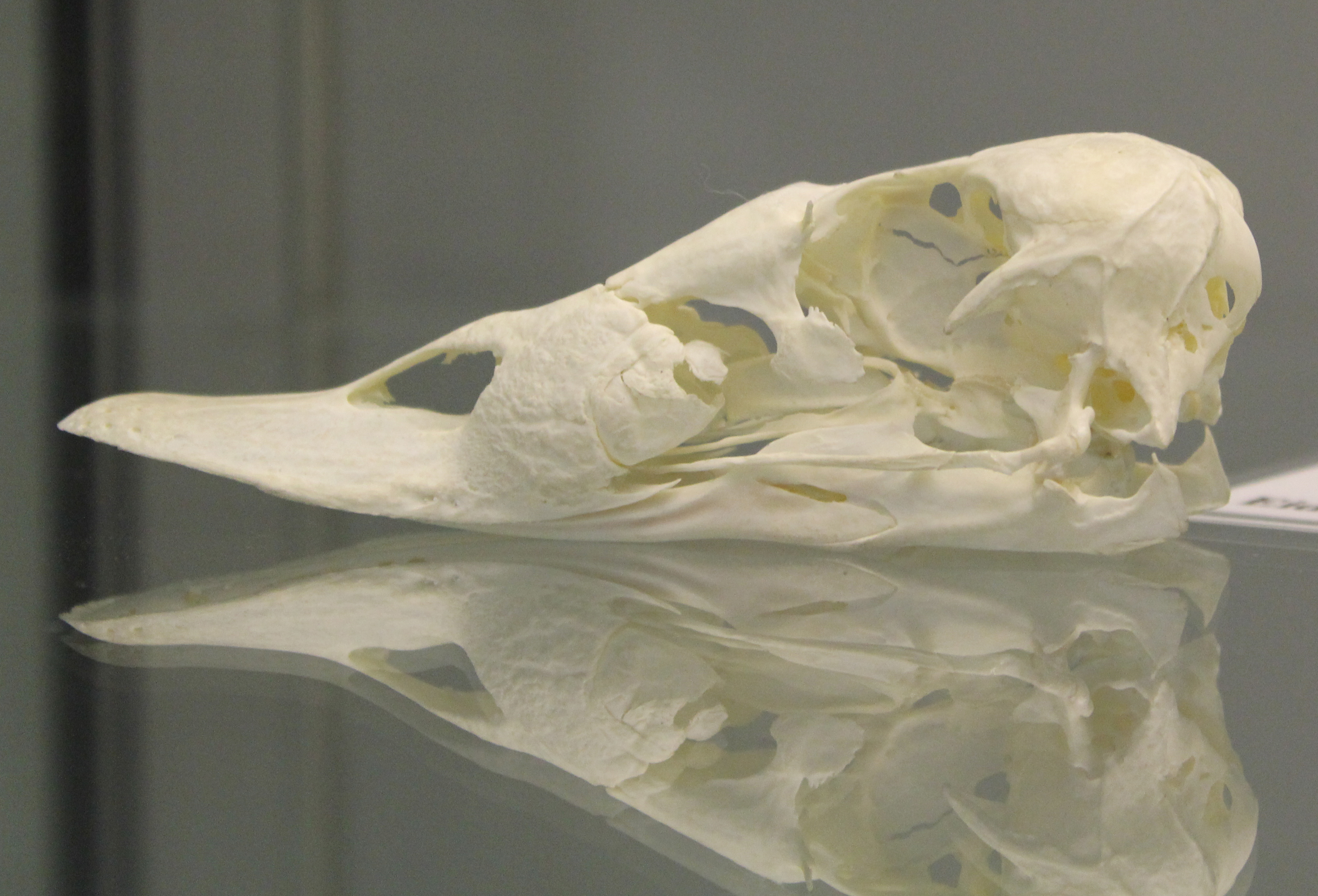 Common Eider (Somateria mollissima) skull at the Royal Veterinary College anatomy museum